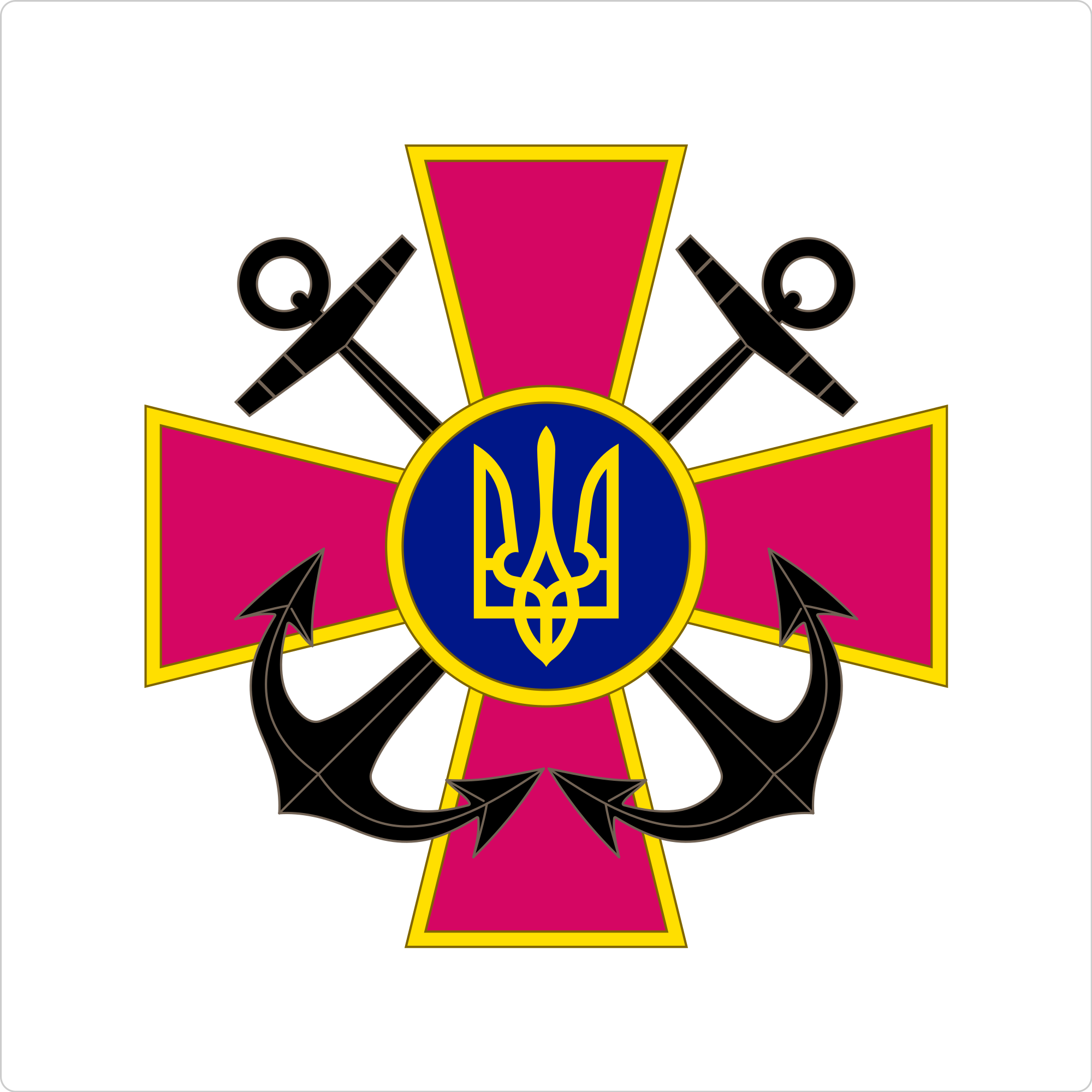 Standard of the Ukrainian Navy Commander-in-Chief.